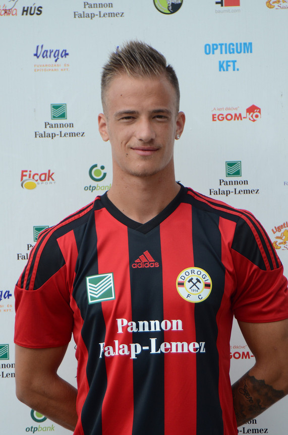 Striker of FC Dorogi in 2016.